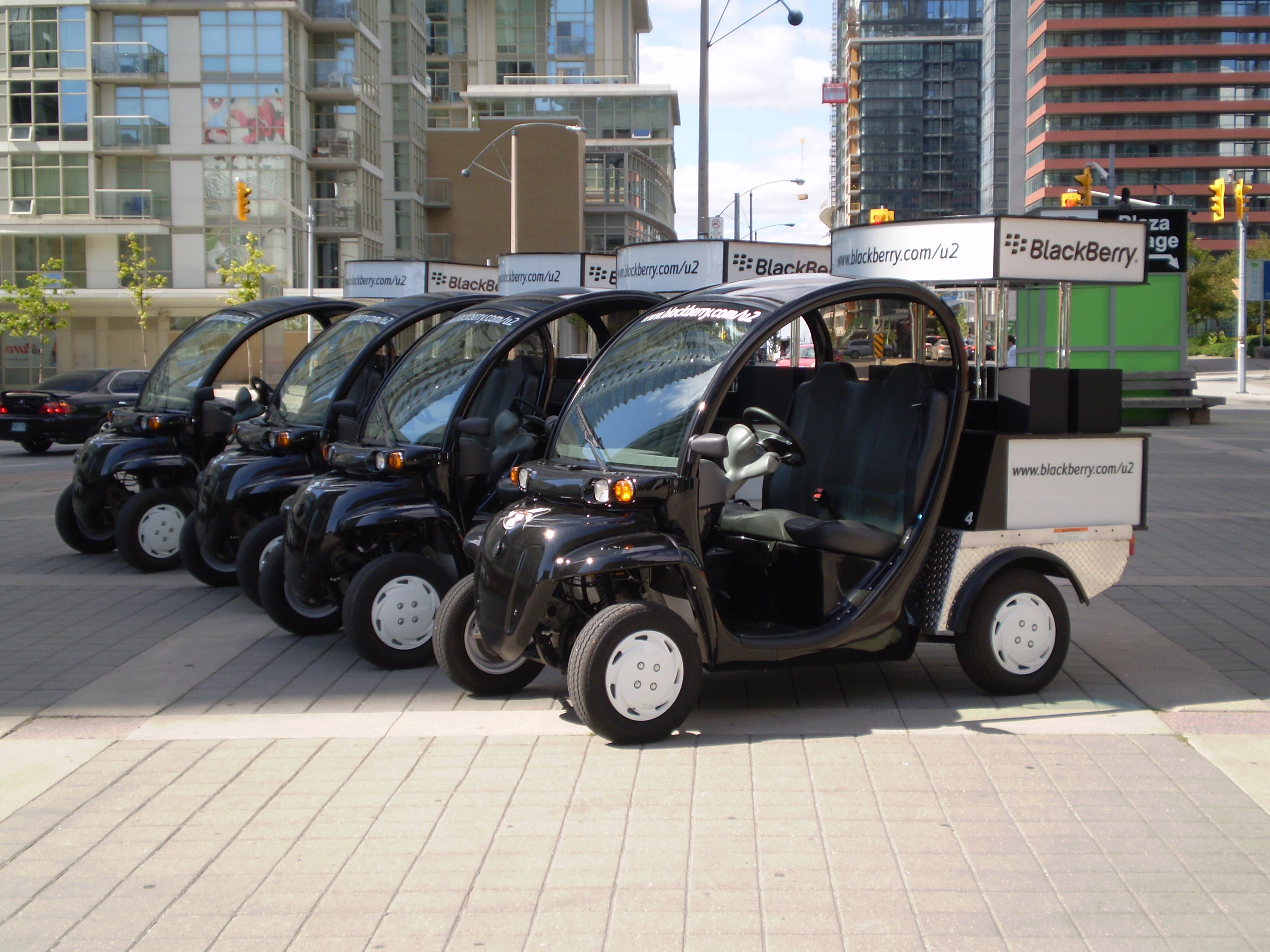 An image of several small cars with the Blackberry and U2 branding on them, parked outside of the Rogers Centre in Toronto, Ontario.